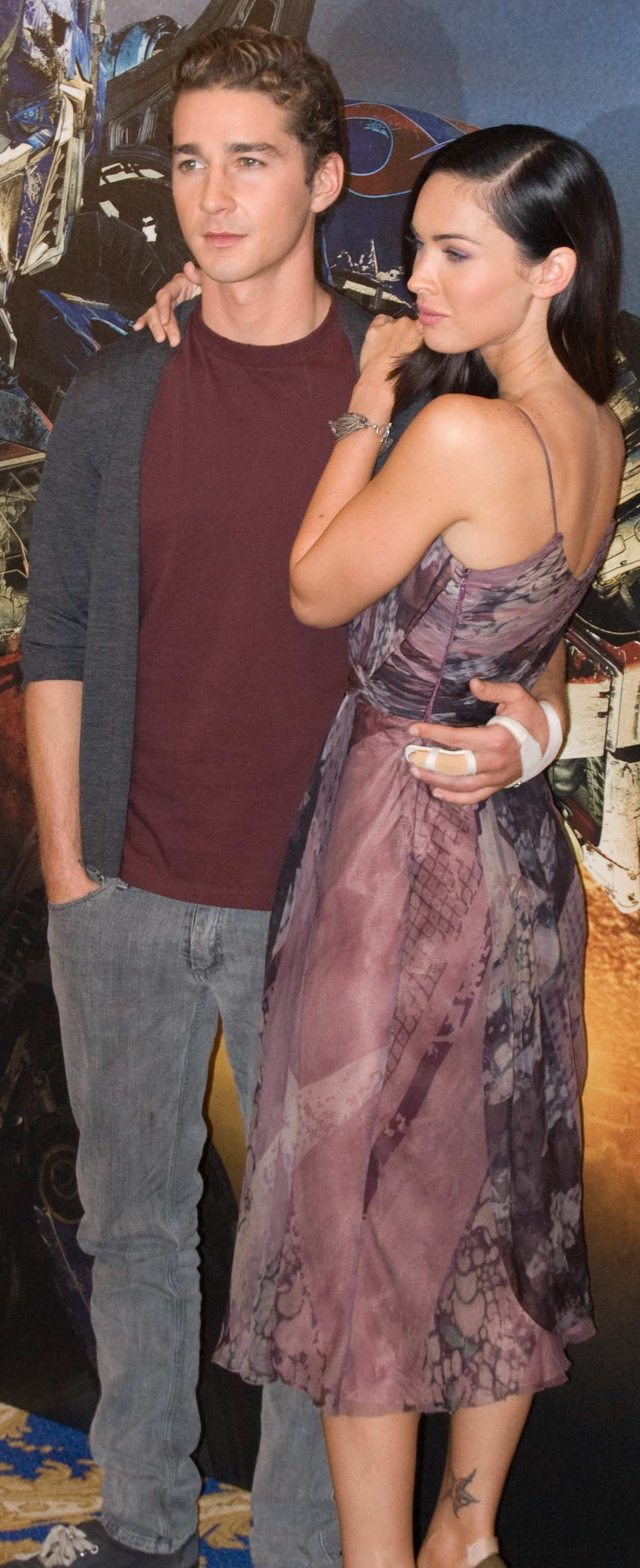 Shia LaBeouf and Megan Fox posing at the Transformers: Revenge of the Fallen press conference in Paris